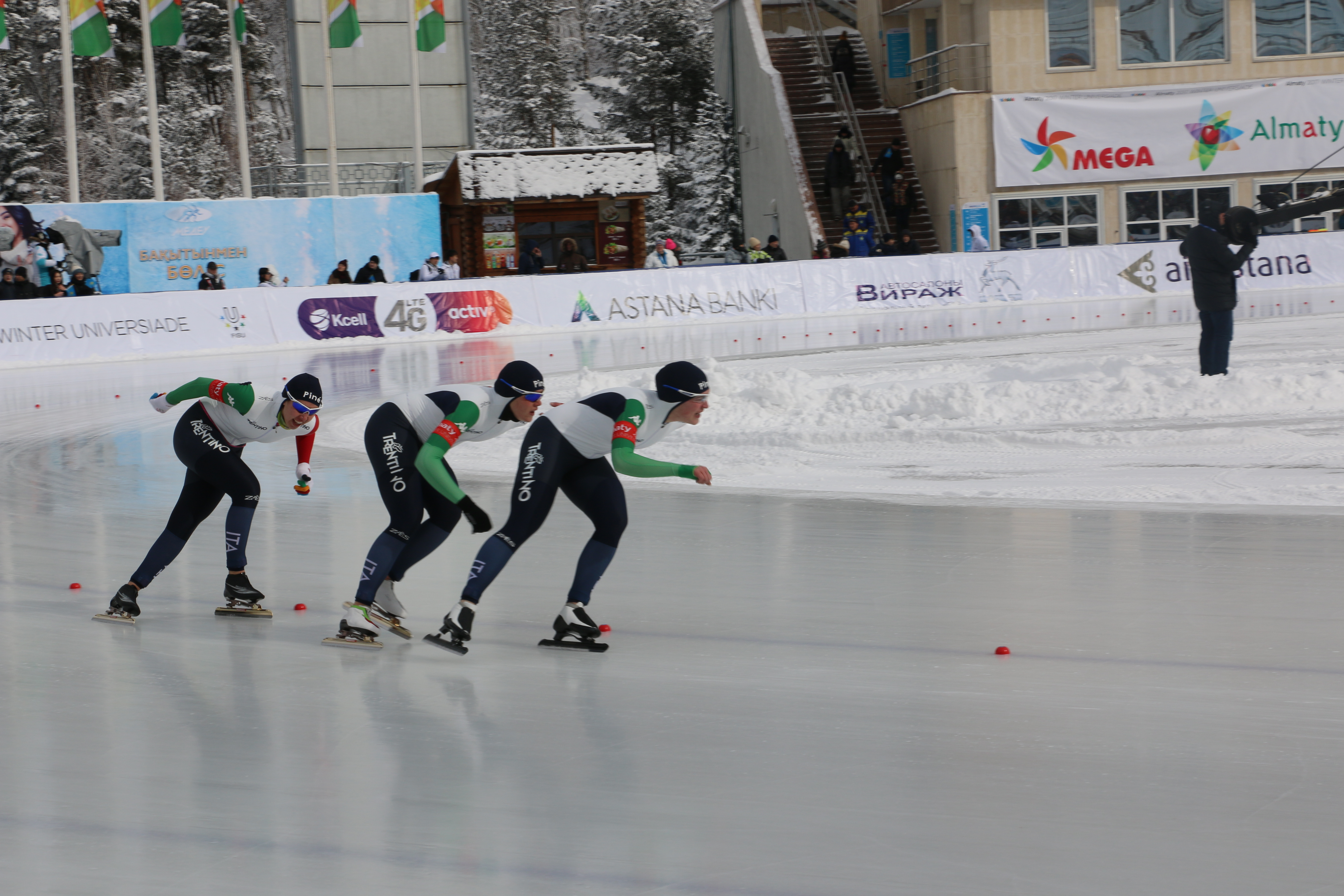 Universiade 2017. Speed Skating. Women's team pursuit. ITA - JPN. Team Italy includes : Linda Bortolotti, Giulia Lollobrigida, Gloria Malfatti.